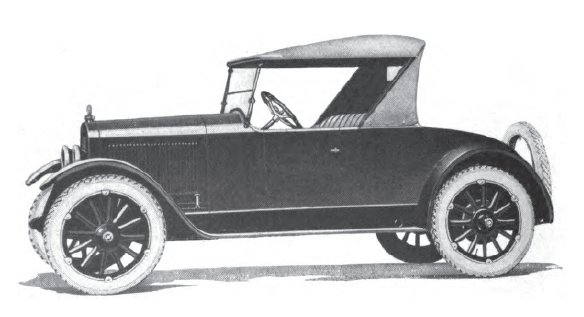 Gardner (automobile). Image was taken from page 98 of the cited book. From Google Books: Title Official handbook of automobiles Authors Association of Licensed Automobile Manufacturers (U.S.), Automobile Board of Trade, Automobile Manufacturers Association Published 1922 Original from the University of Michigan Digitized Jul 14, 2005